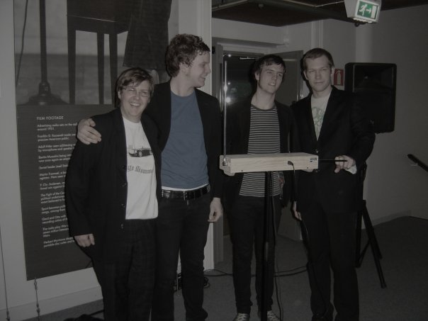 Trondheim Thereminorkester, from the left: Ailo Kemi Gjerpe, Thomas Andersen, Lars Erik Brustad Melhus and Kenneth Holter